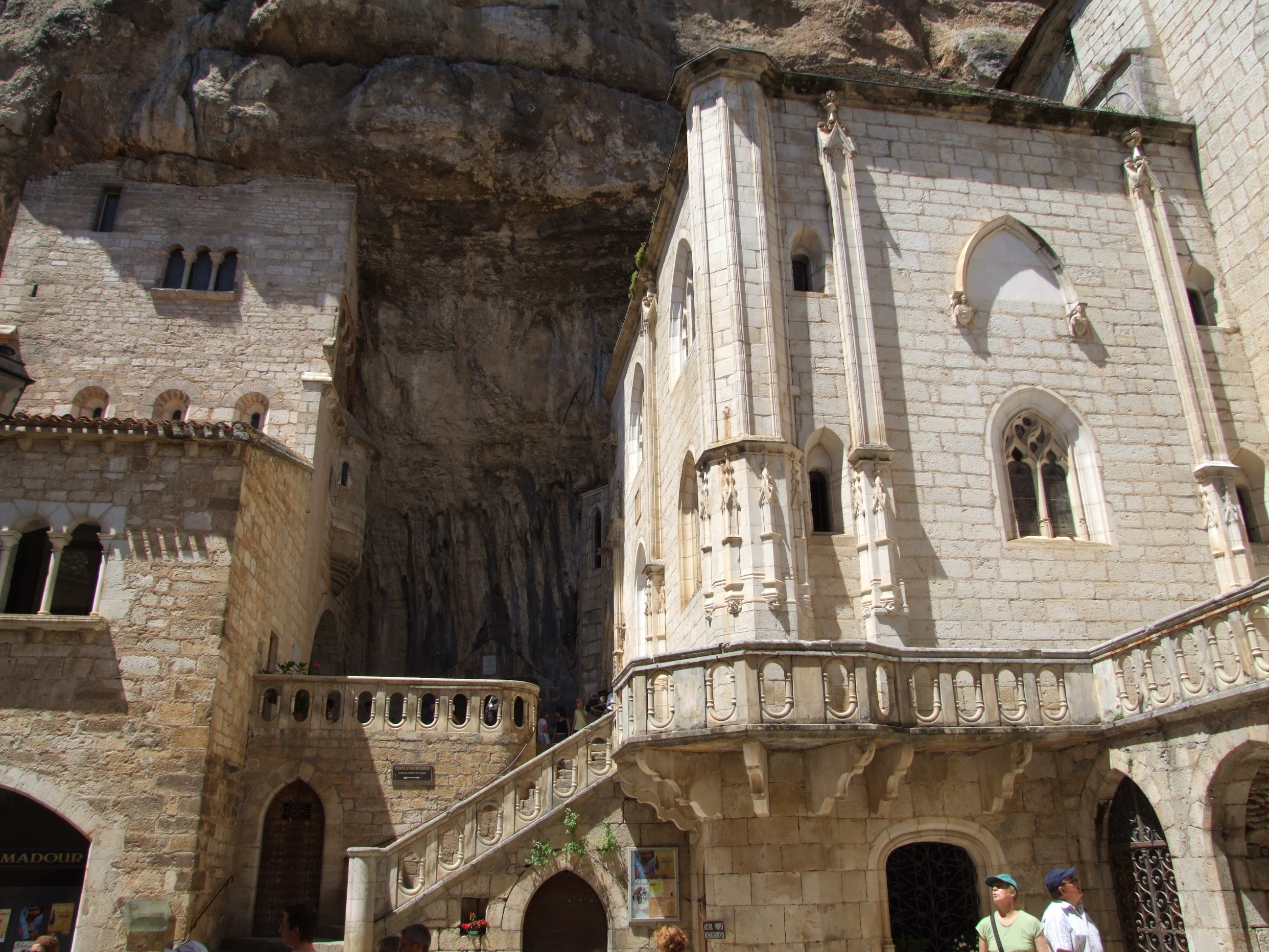 Rocamadour, Lot, FRANCE